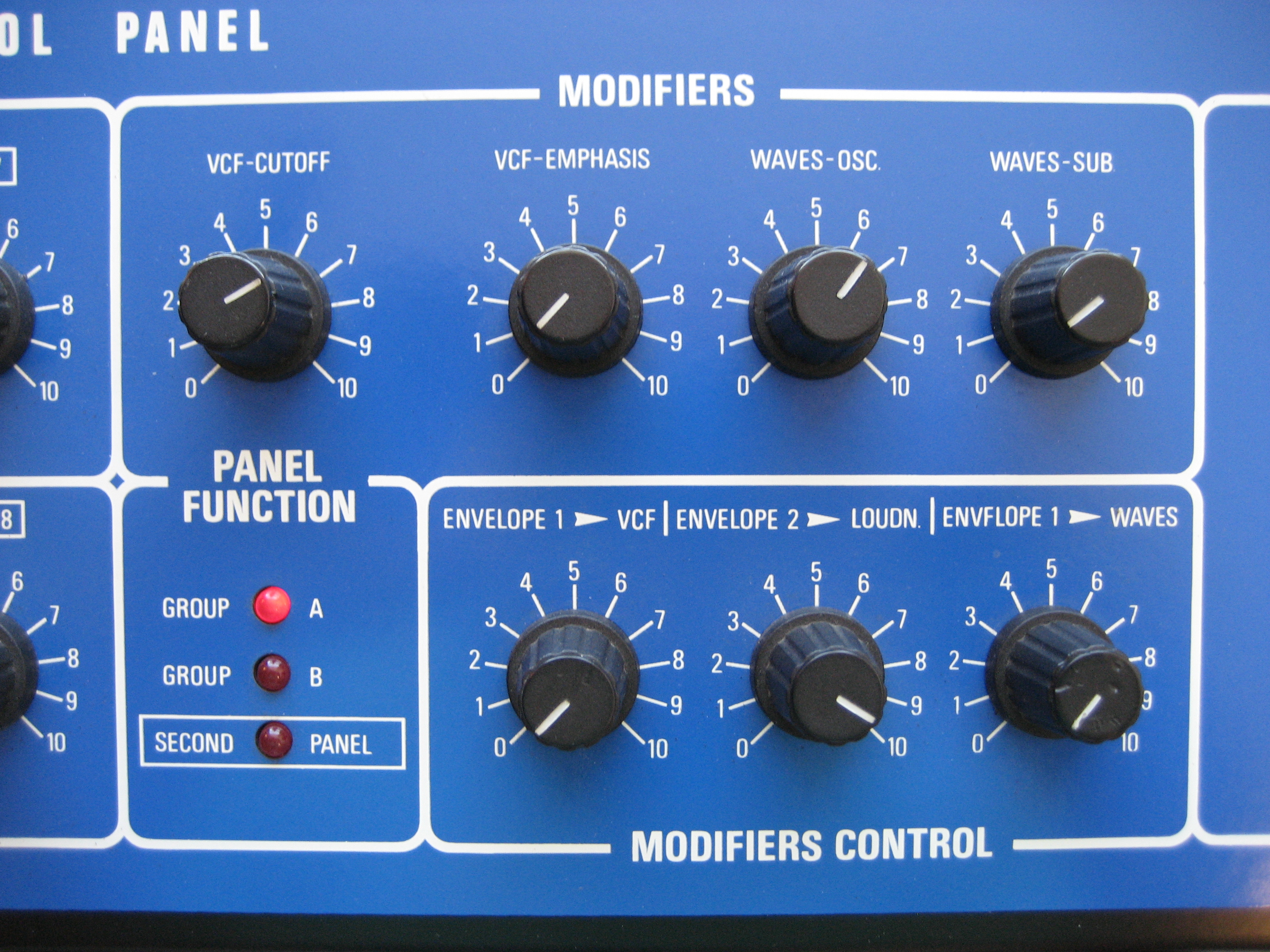 closeup of the input control pots and panel function LEDs for the PPG Wave 2.2 PPG WAVE 2.2 (panel#4 Mixer&VCF) uploaded using Flickr upload bot from krunkwerke@Flickr